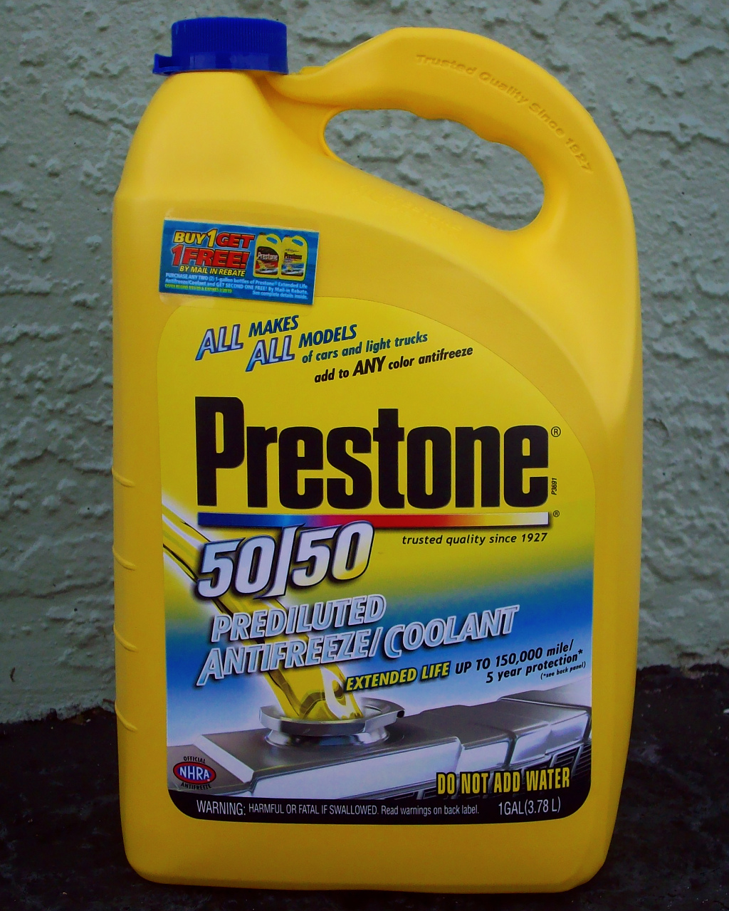 A plastic bottle containing ethylene glycol antifreeze